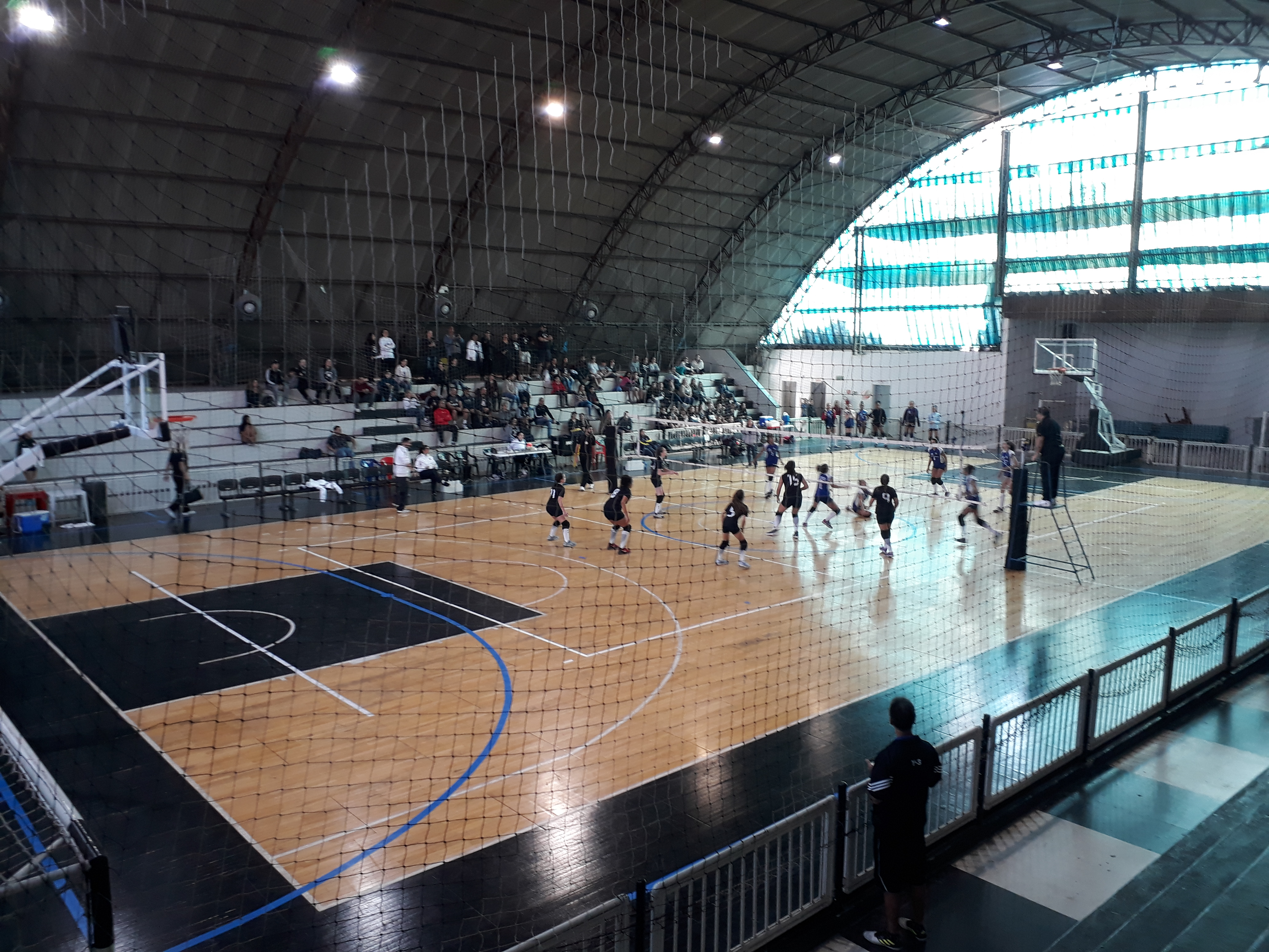 Mini Gym, located in São Jorge Park, Corinthians social and administrative headquarters